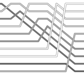 Step-by-step visualisation of the insertion-sort sorting algorithm, generated with software from here, cropped using GIMP